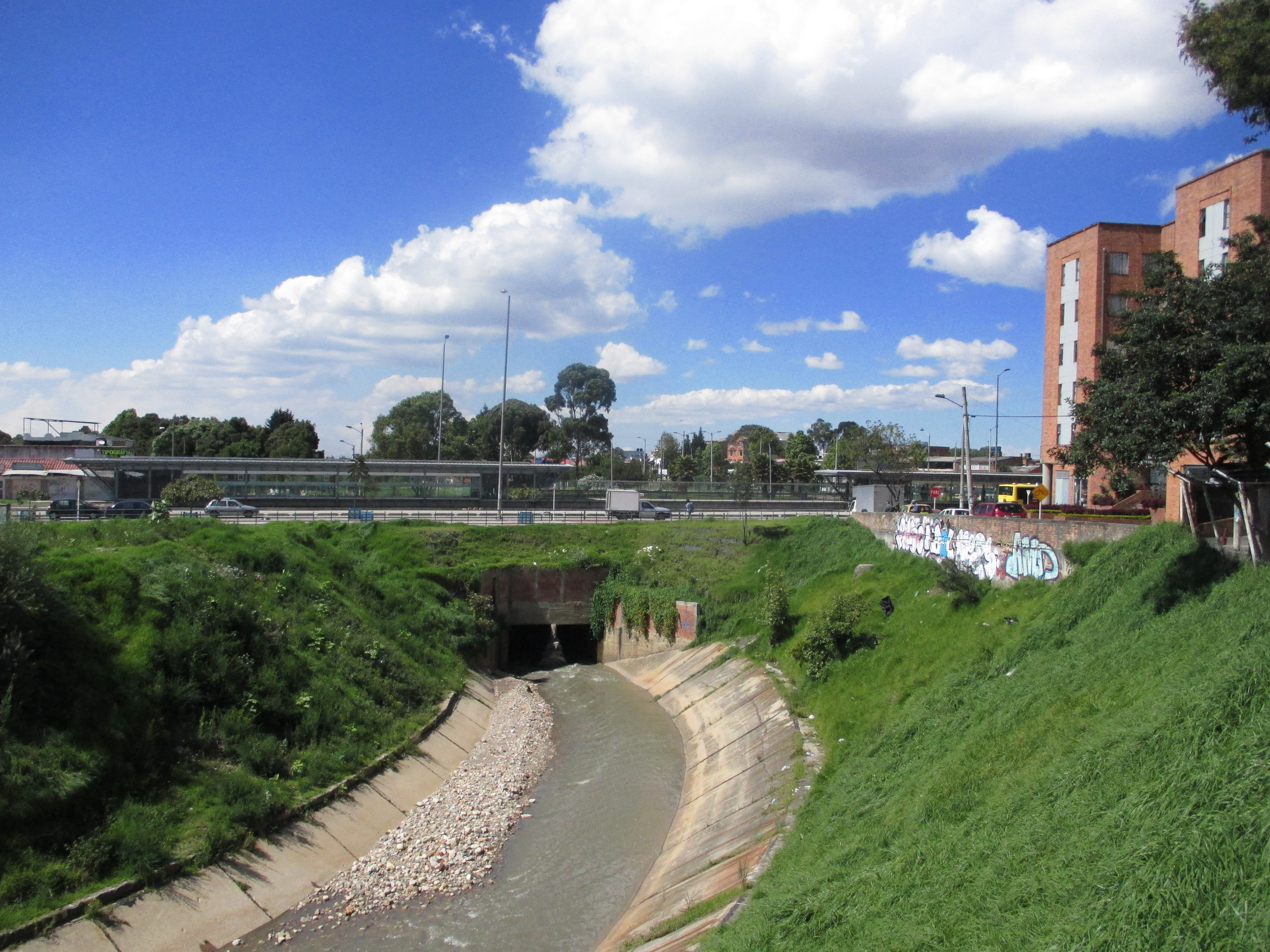 Bogotá